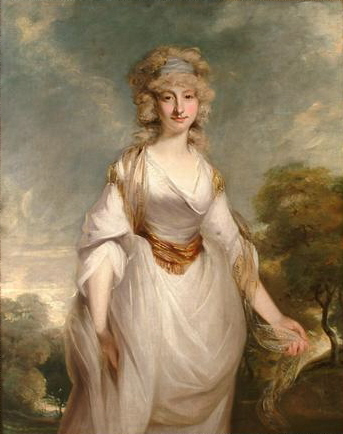 Lady Almeria Carpenter (1752-1809) was the eldest daughter of George Carpenter, First Earl of Tyrconnel (1723-1762) by Richard Cosway died 1821 guess at 1775